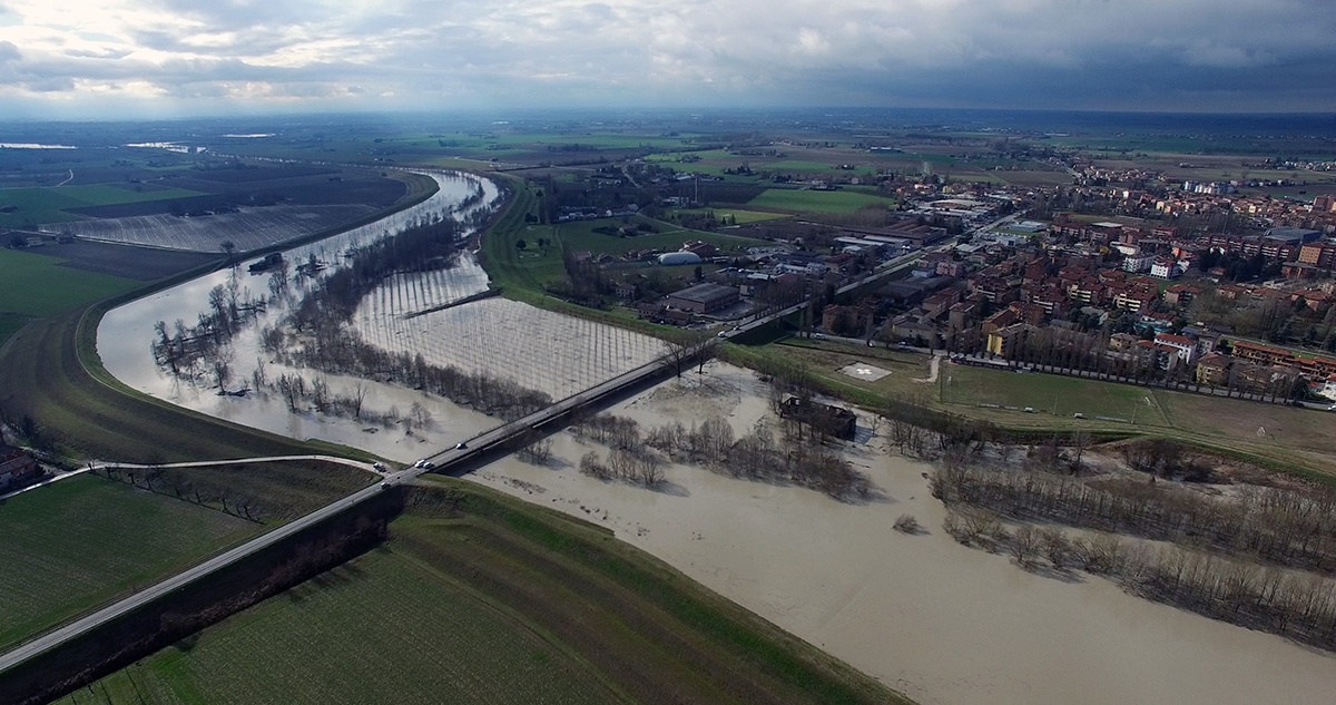 La piena del Reno passa per Cento